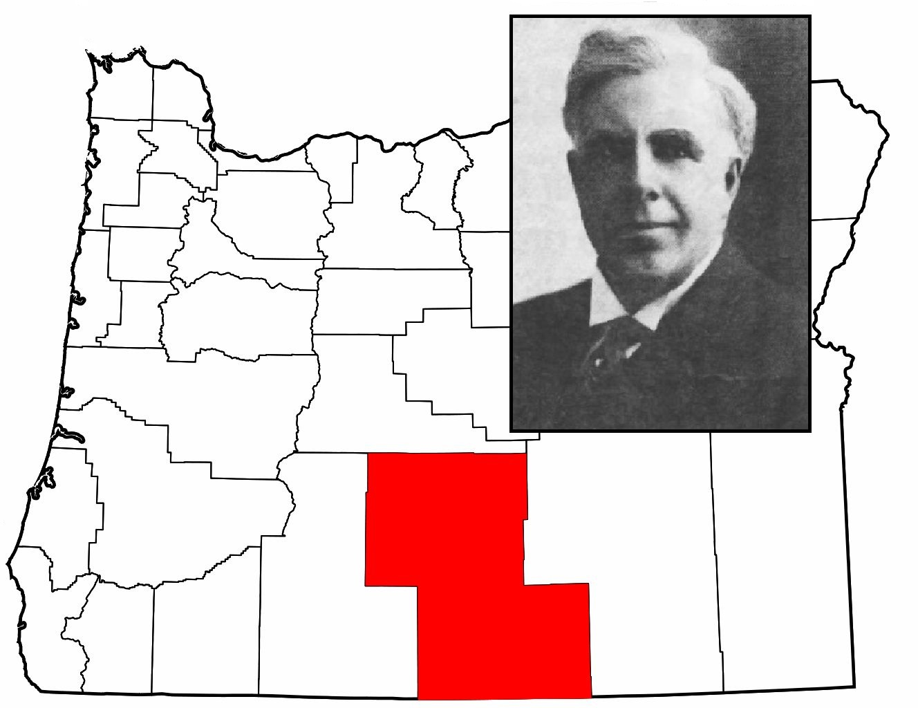 Dr. Bernard Daly and Oregon map with Lake County highlighted